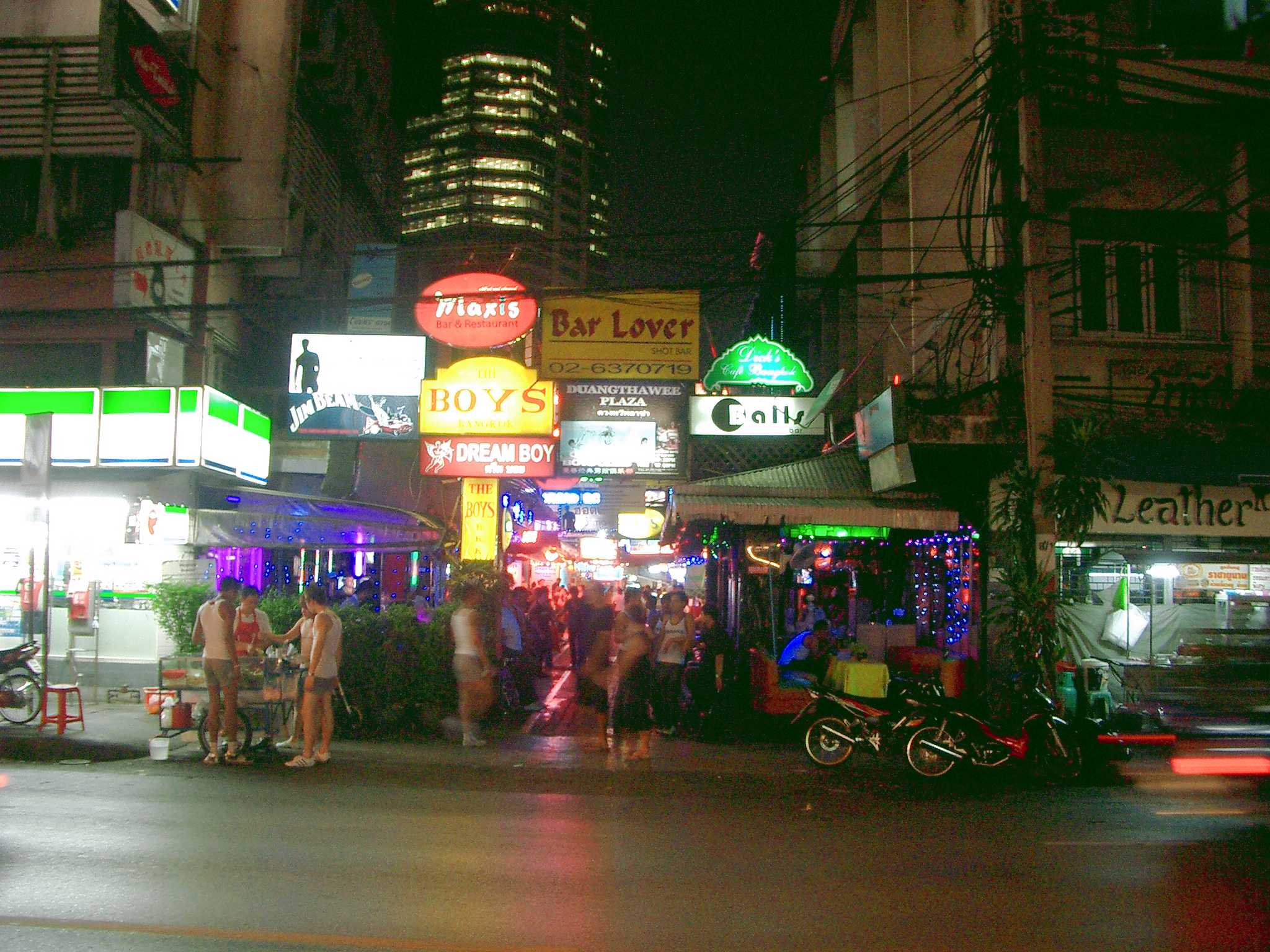 Soi Pratuchai(Soi Twilight), Bang Rak, Bangkok, Thailand